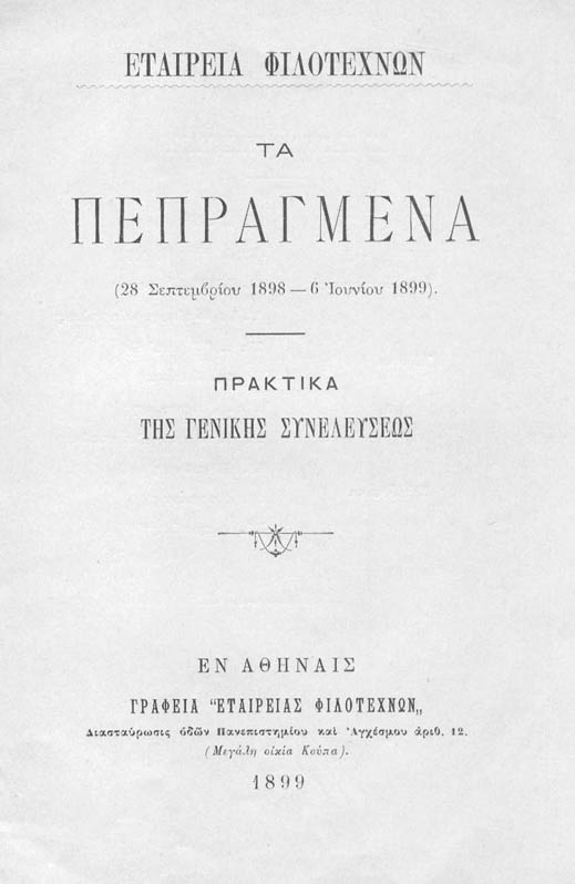 Society of Friends of Fine Arts, Athens, 1898